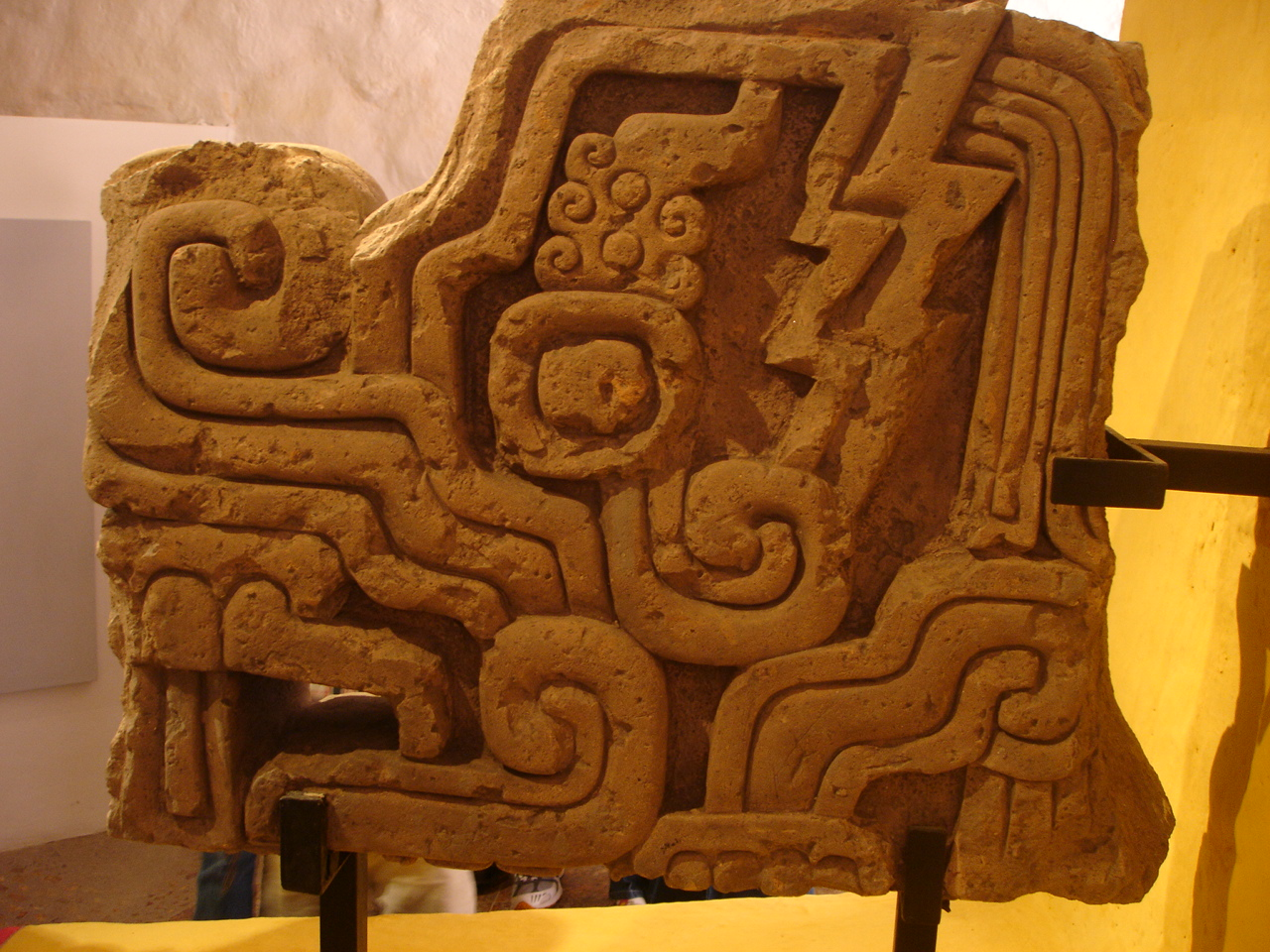 Pieza rescatada de la zona de Plazuelas, en el museo de sitio